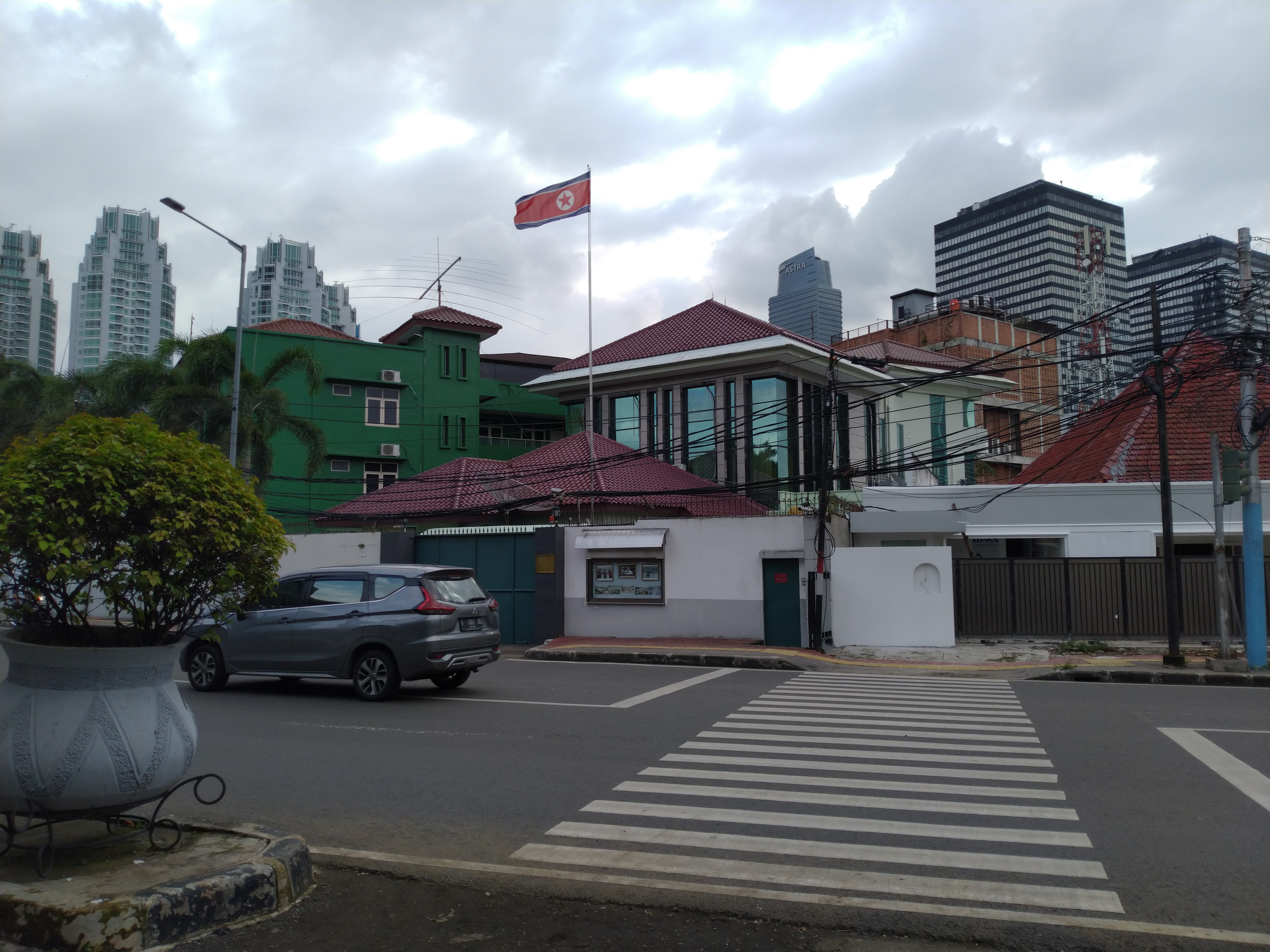 This is an embassy office of Democratic Peoples Republic of Korea (DPRK) or North Korea in Jakarta, Indonesia